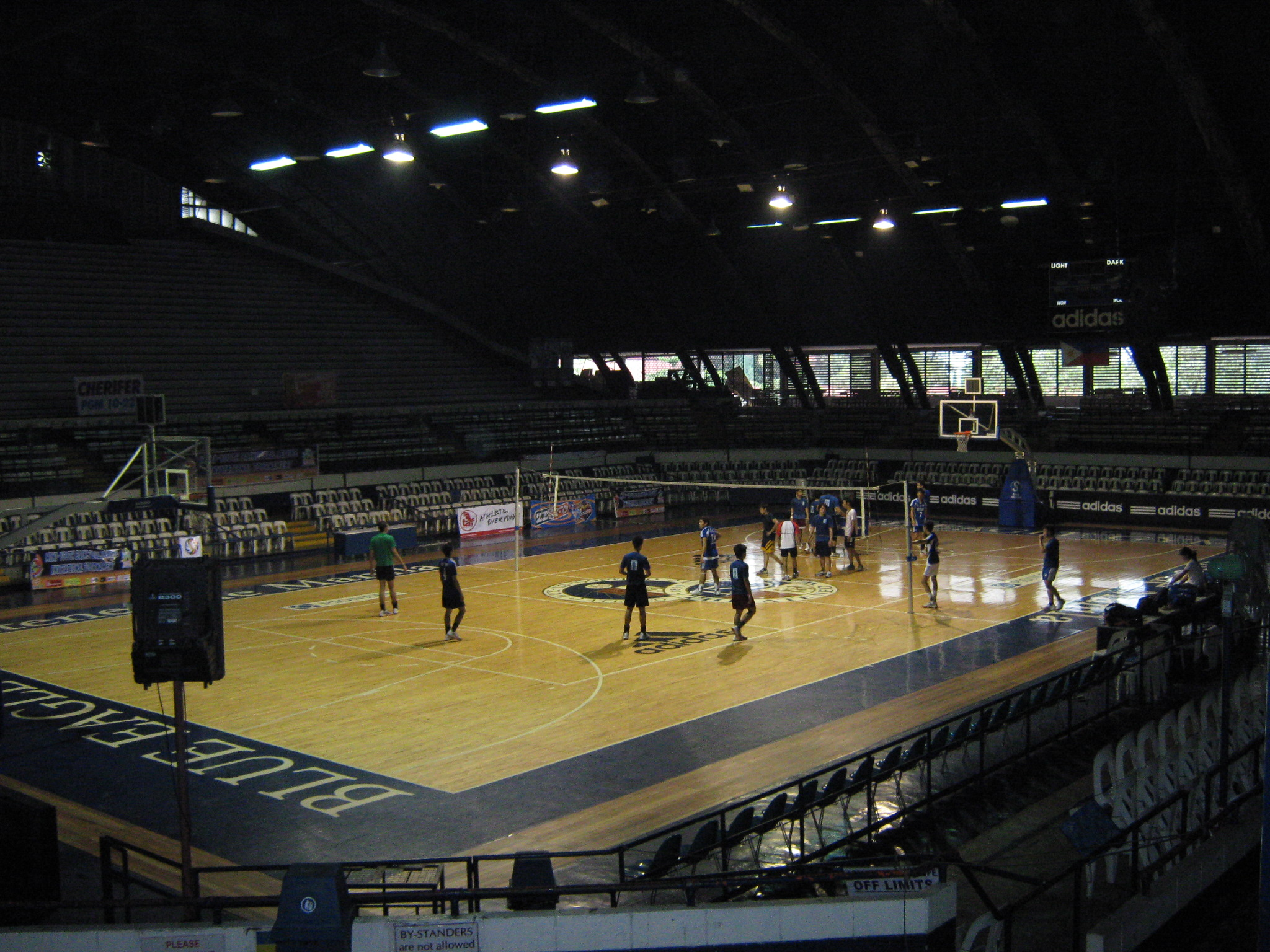 Interior of the Ateneo Blue Eagle Gym at Ateneo de Manila University in Quezon City, Metro Manila, Philippines.